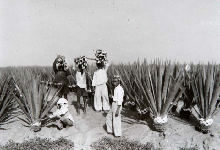 Sisal plants at a plantation